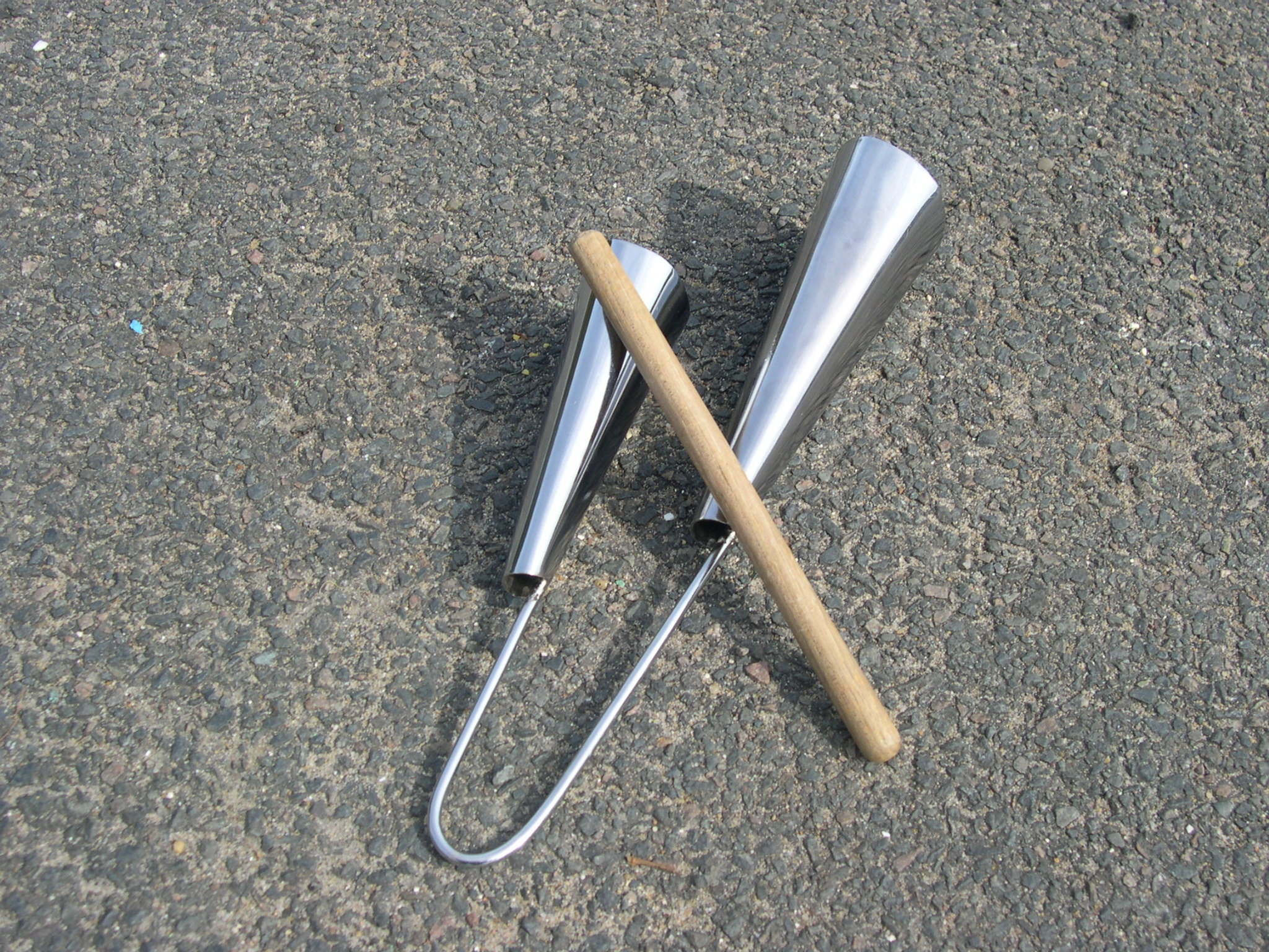 Chrome steel agogo with two bells and its wood stick.